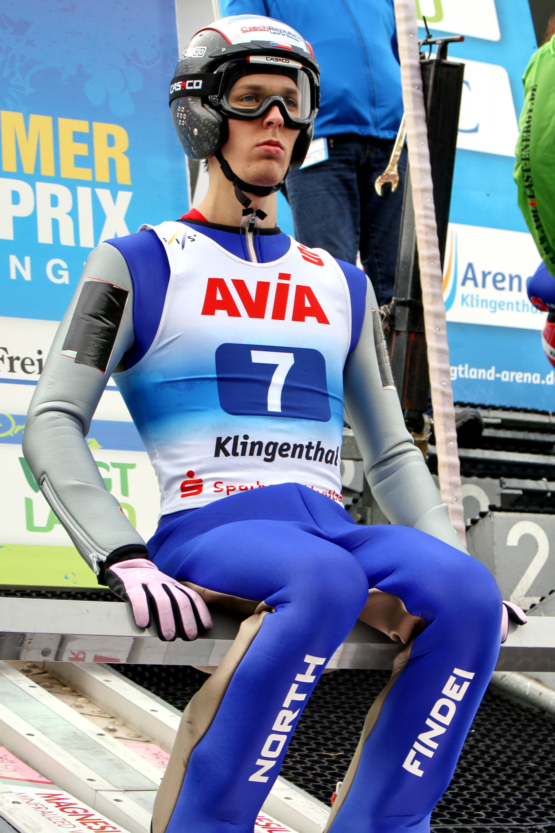 FIS Ski Jumping Summer Grand Prix Klingenthal 2017 on 2017-10-03 Vojtěch Štursa